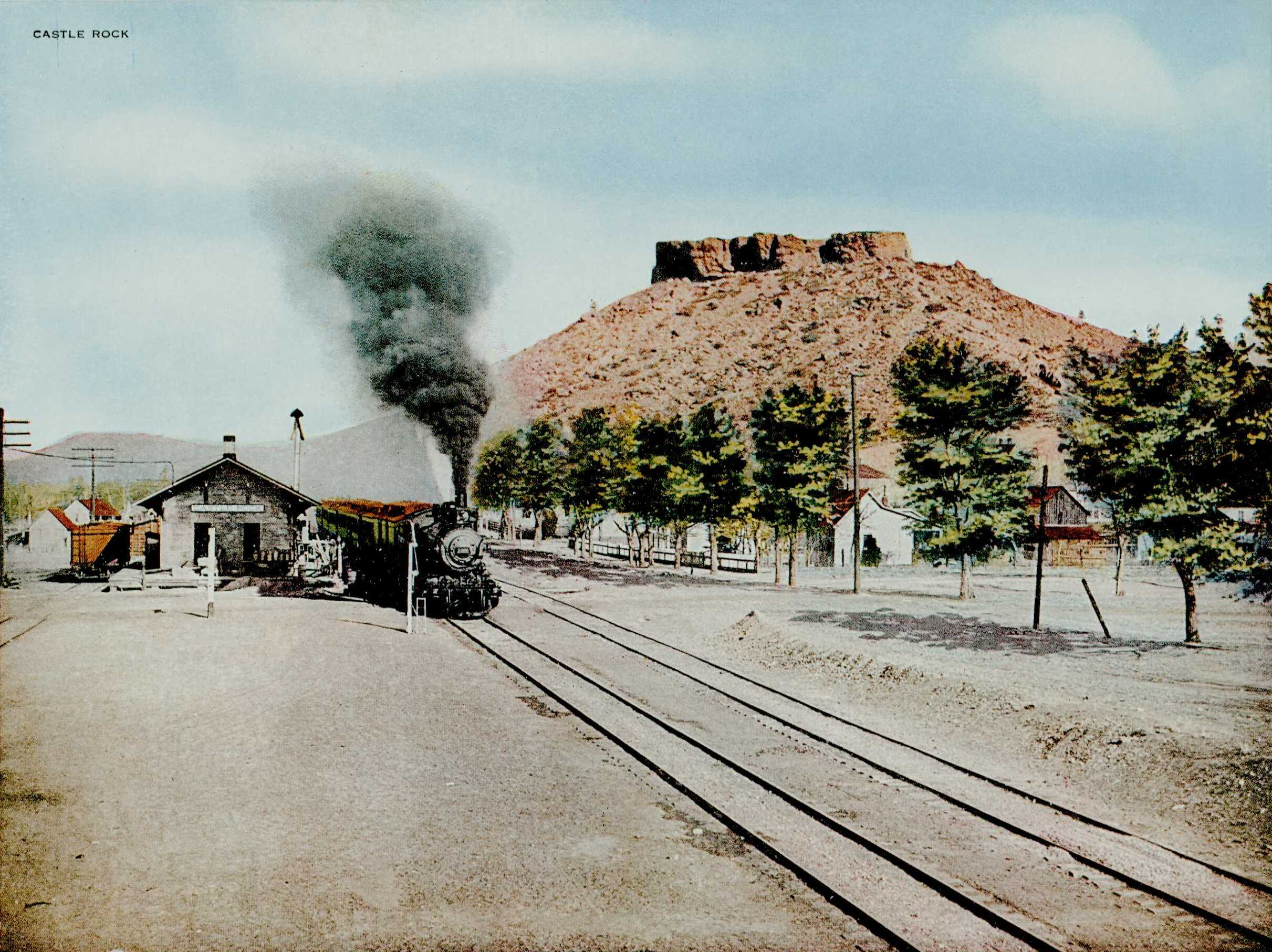 Castle Rock, Colorado, 33 , miles from Denver. This is from "Rocky Mountain Views", a promotional book with 24 color plates made "For Sale Only en Route on The Denver & Rio Grande Western Railroad".